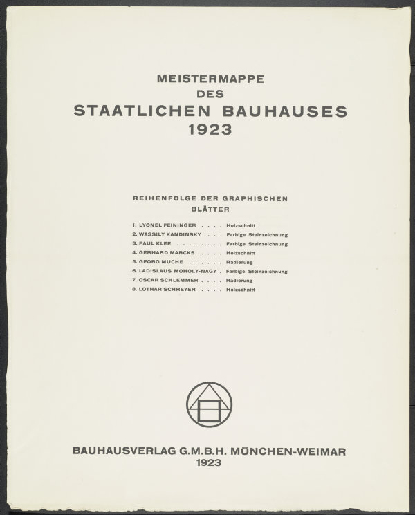 ID: 650861Inv-Nr.: Gr-2015/356Druckerei: Staatliches Bauhaus WeimarVerleger: Bauhausverlag G.m.b.H. München-WeimarGegenstand: aus der: Meistermappe des Staatlichen Bauhauses 1923, Titelblatt mit Inhaltsverzeichnis/ verso ImpressumDatierung: 1923Technik: DruckMaterial: PapierMaße: Blatt: 500 x 399 mm